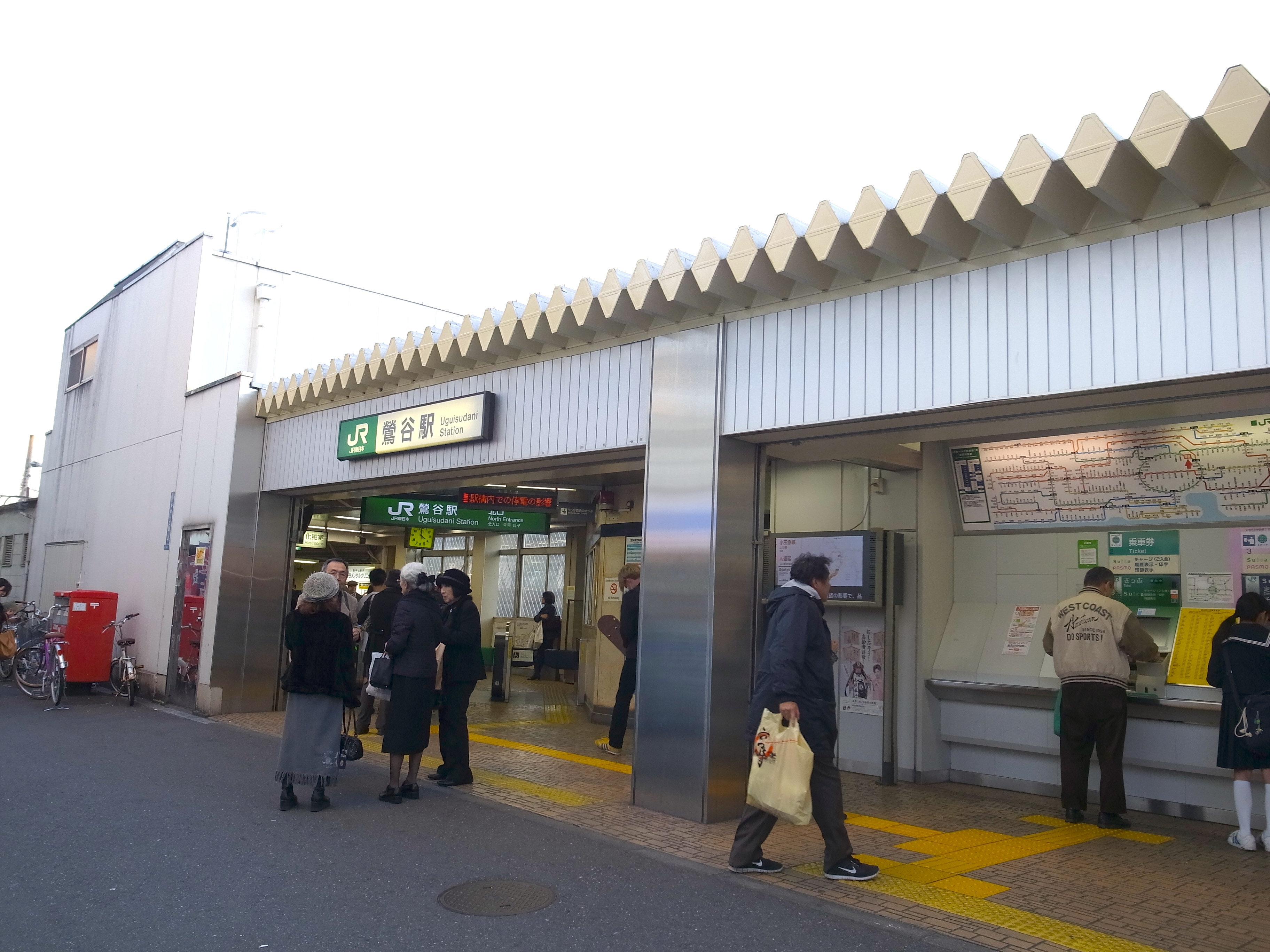 Uguisudani Station north exit